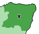 Image showing the location of Craigievar Castle within Grampian, Scotland